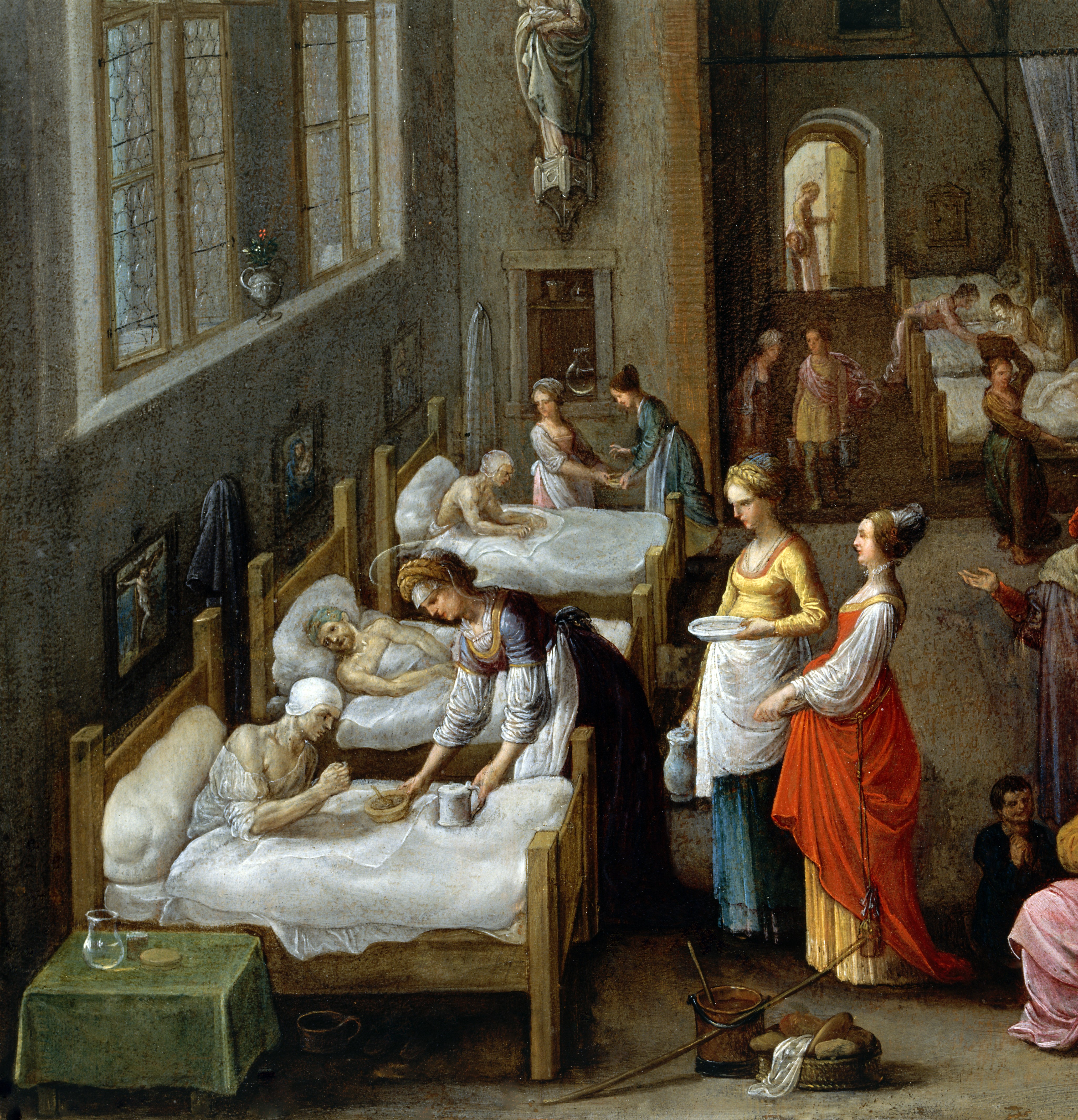 Saint Elizabeth offers a bowl of food and a tankard of drink to a male patient in the hospital in Marburg, Germany. Iconographic Collections Keywords: marburg; Patient; Elizabeth; Adam Elsheimer; Hospital; Saints; Religion; Patients; Ward; Hospitals